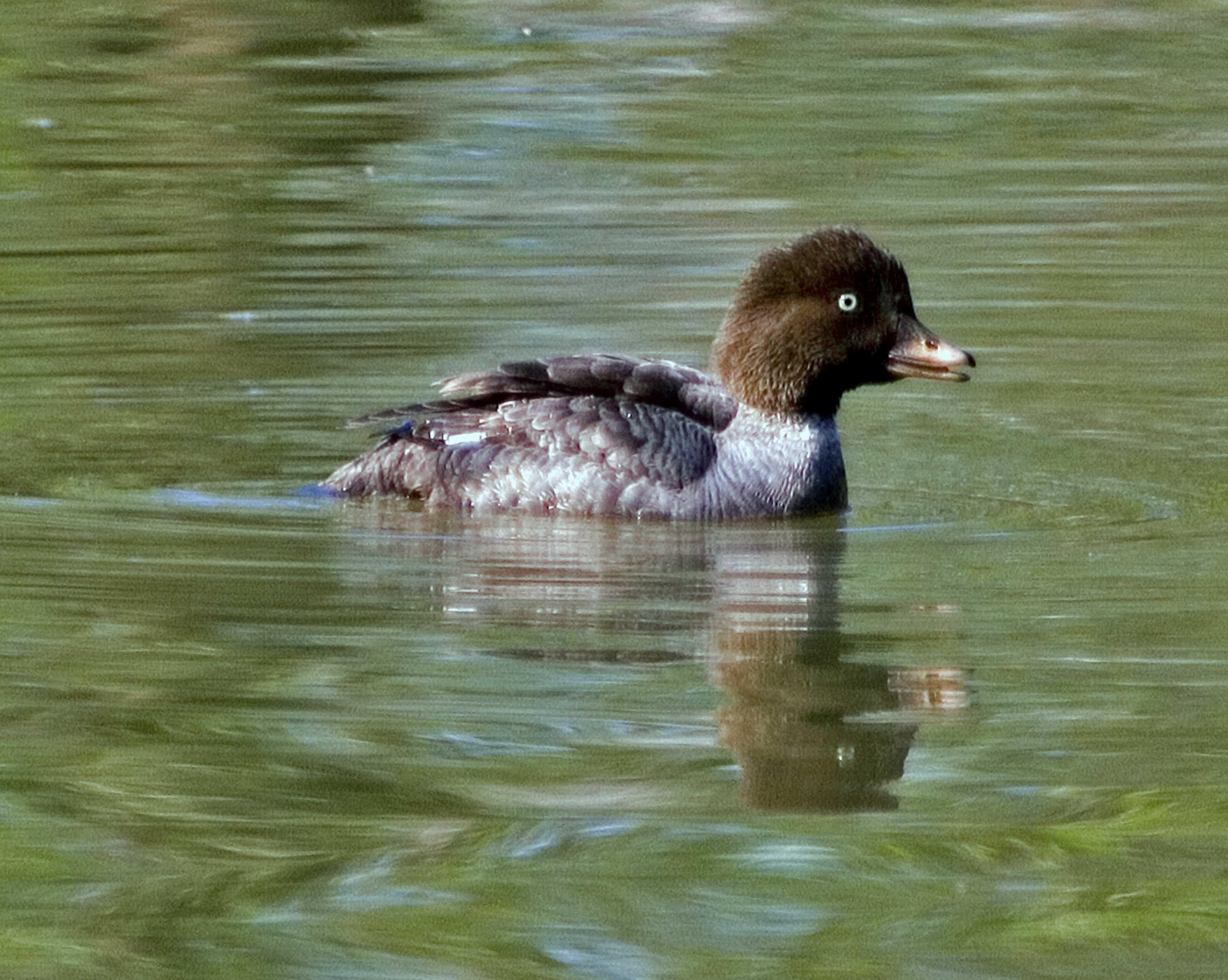 A photograph of a Barrow's Goldeneye (Bucephala islandica) hen.